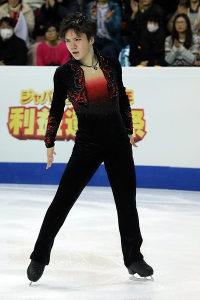 Shoma Uno at the 2016–17 Grand Prix of Figure Skating Final.